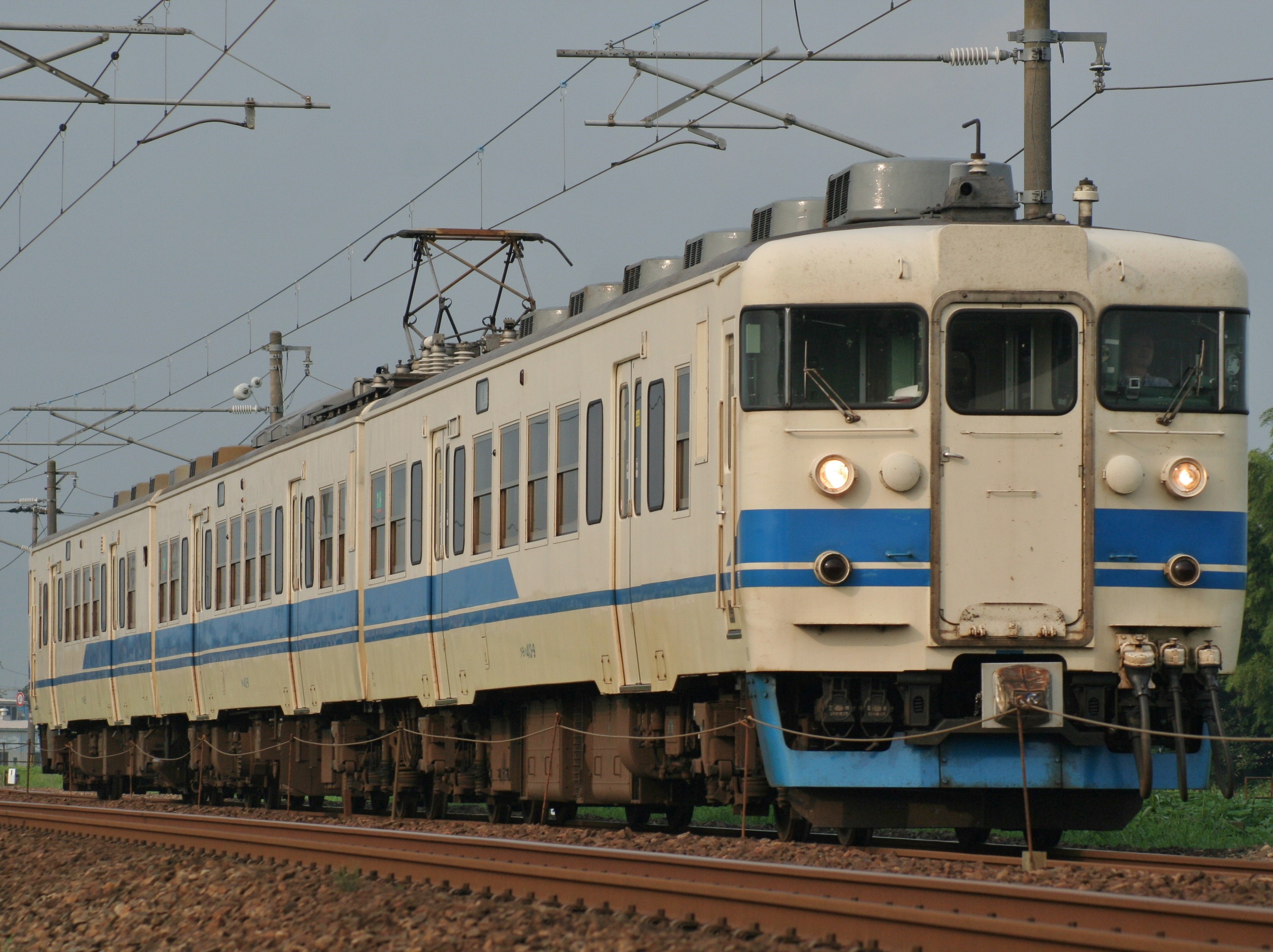 JR West 413 series EMU Set B9 on a Hokuriku Main Line local service